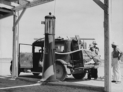 Car of migrants at highway gas station, Arizona, 1937. "Family of nine from near Fort Smith, Arkansas, on their way to try to find work in the California harvests. Between Yuma and Phoenix, Arizona. Fourteen such cars were passed one afternoon on this highway"